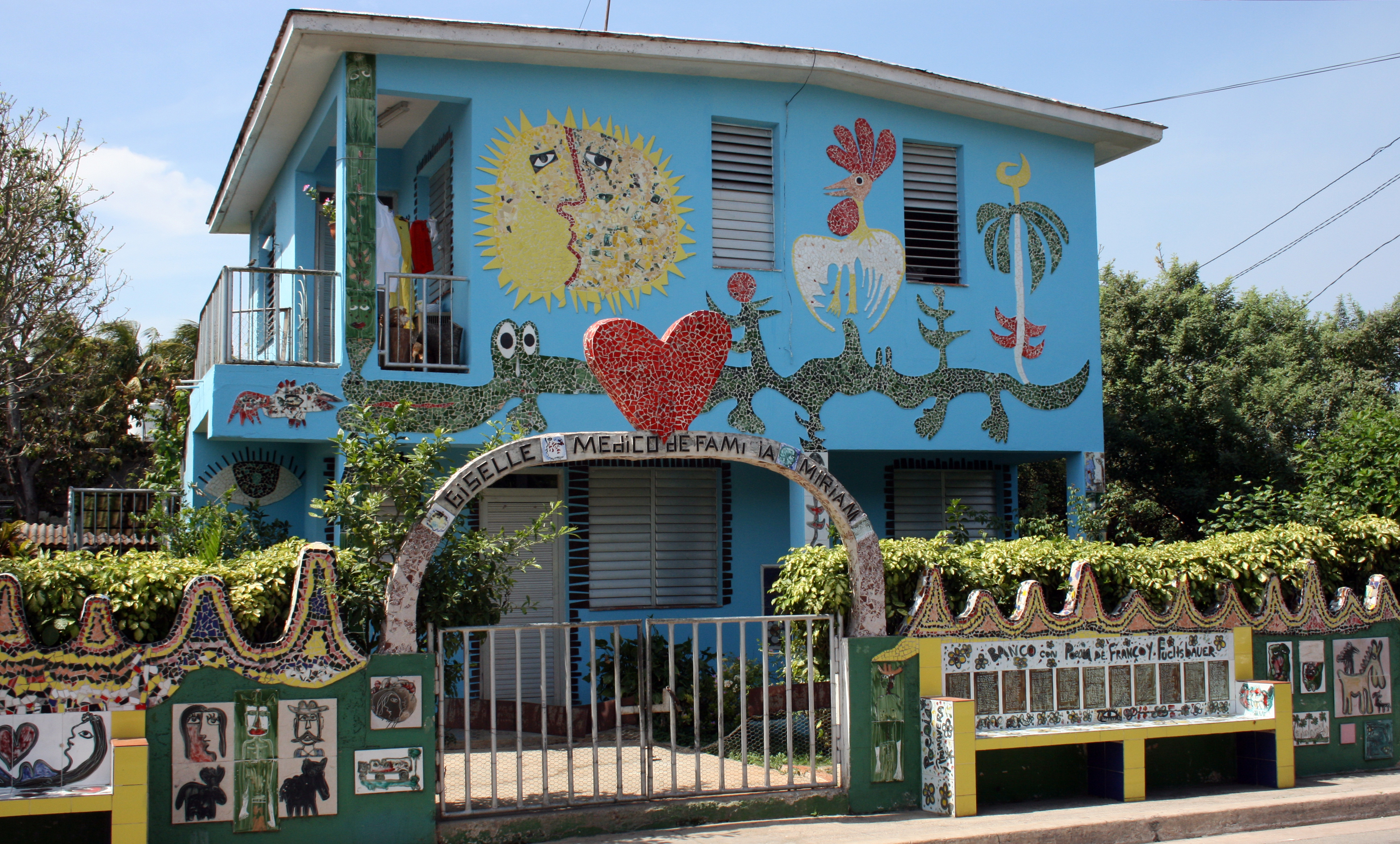 This is the Doctor's surgery in Jaimanitas, decorated by artist José Rodríguez Fuster, Havana, Cuba